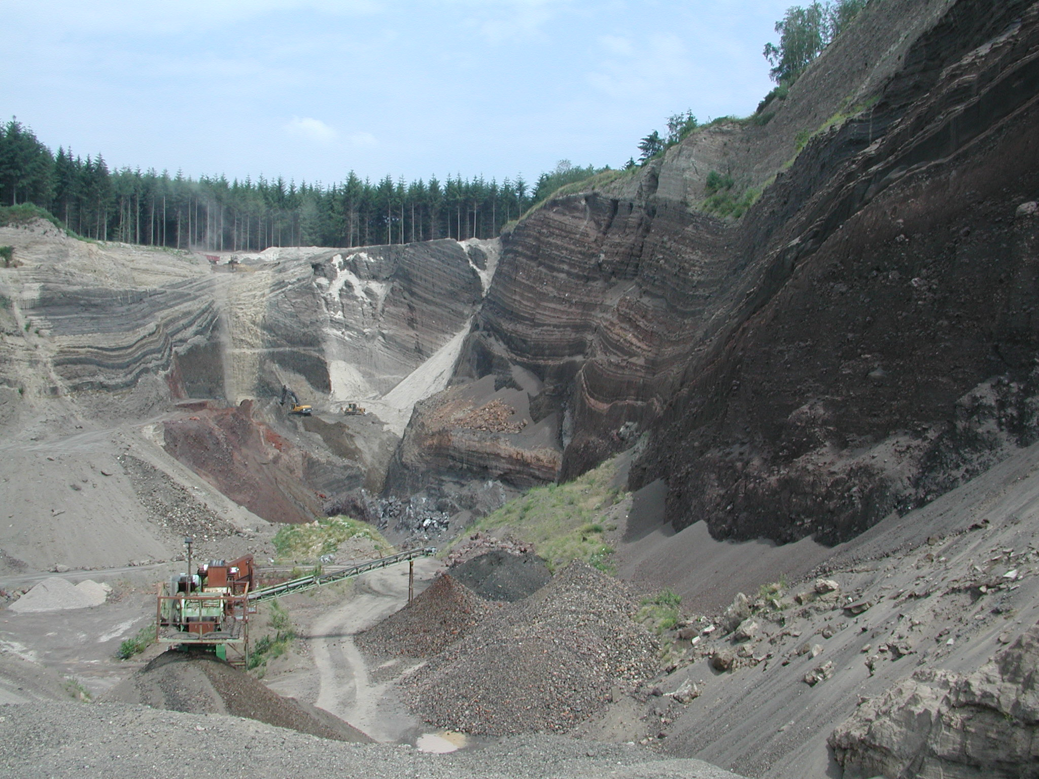 Eppelsberg 2006